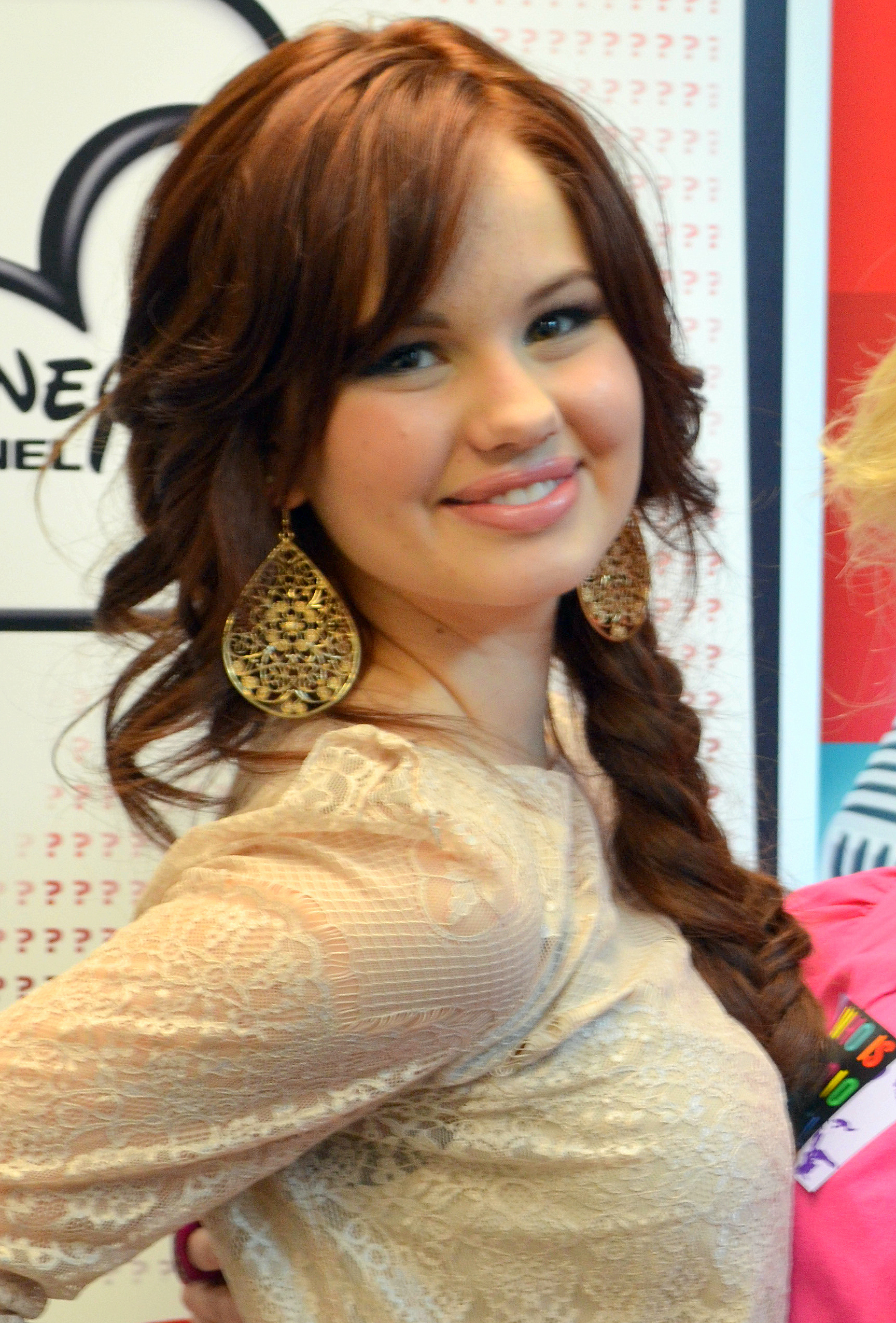 Debby Ryan Interview for "Radio Rebel" New Disney Channel Movie 2012.